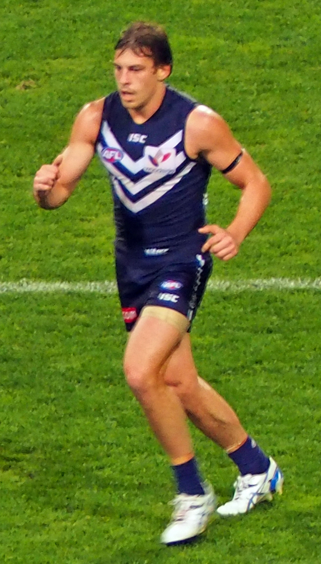 Nick Suban playing for Fremantle Football Club at Patersons Stadium, Round 9, 17 May 2014